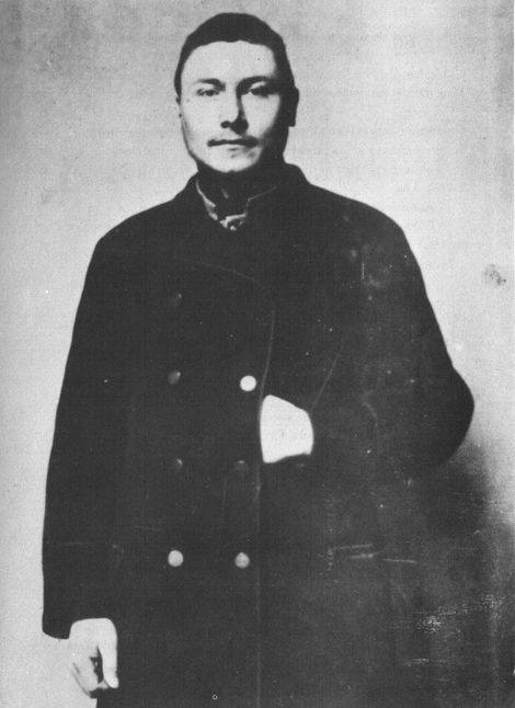 The mugshot of the mass murderer John Filip Nordlund